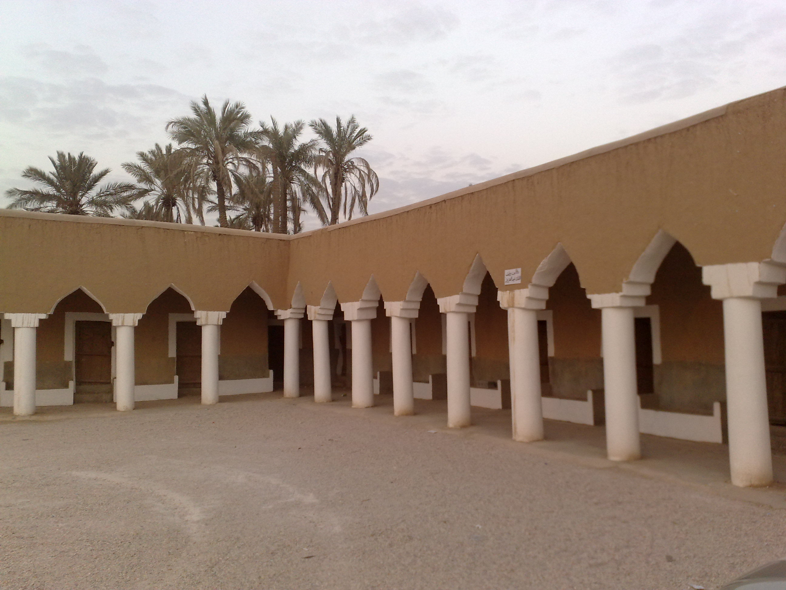 This is an image of the heritage city in Al Majma'Ah